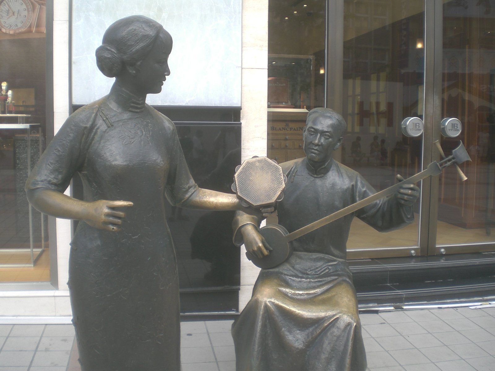 北京市東城區王府井 行人專區